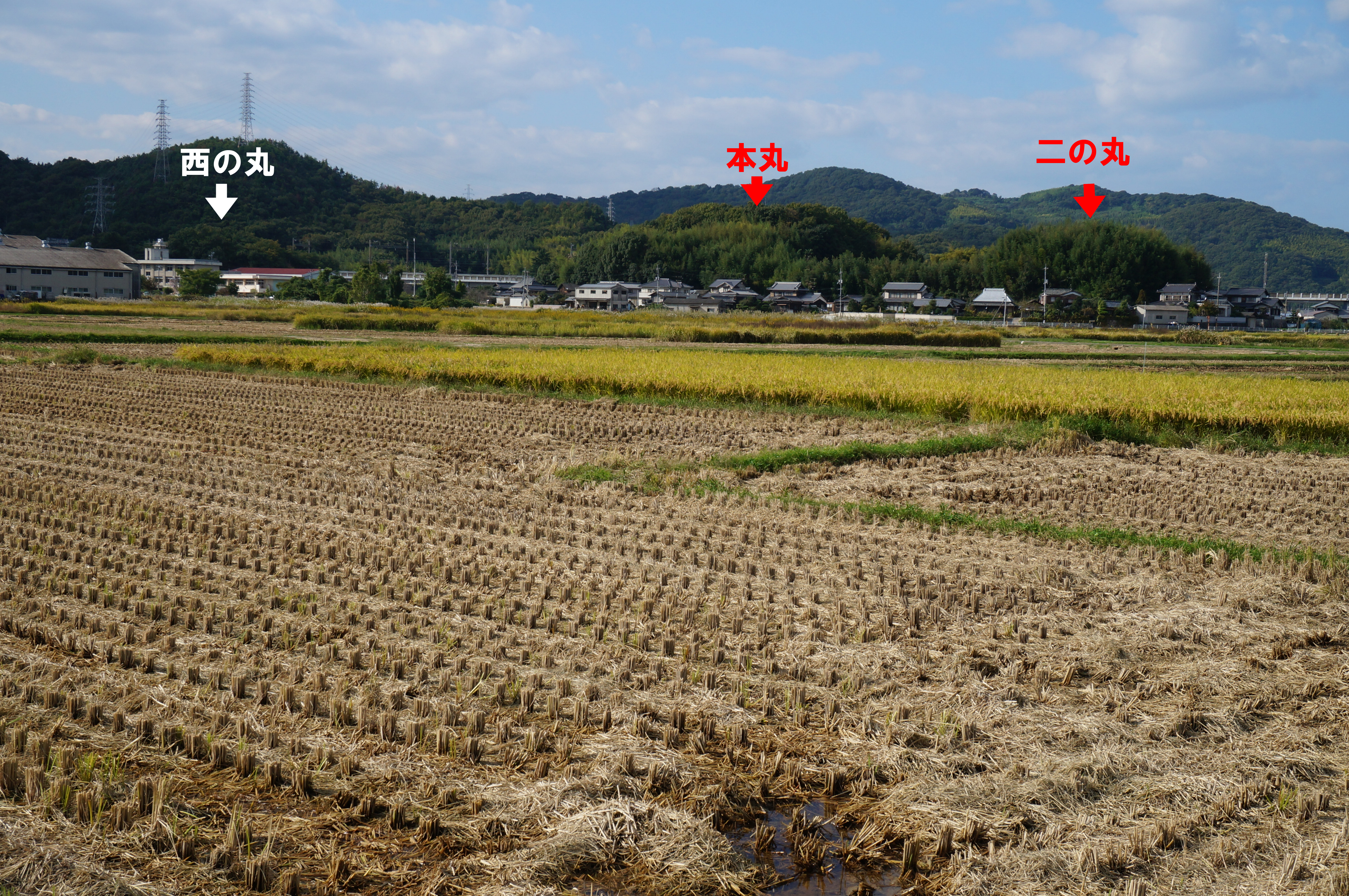 View of Kameyama castle